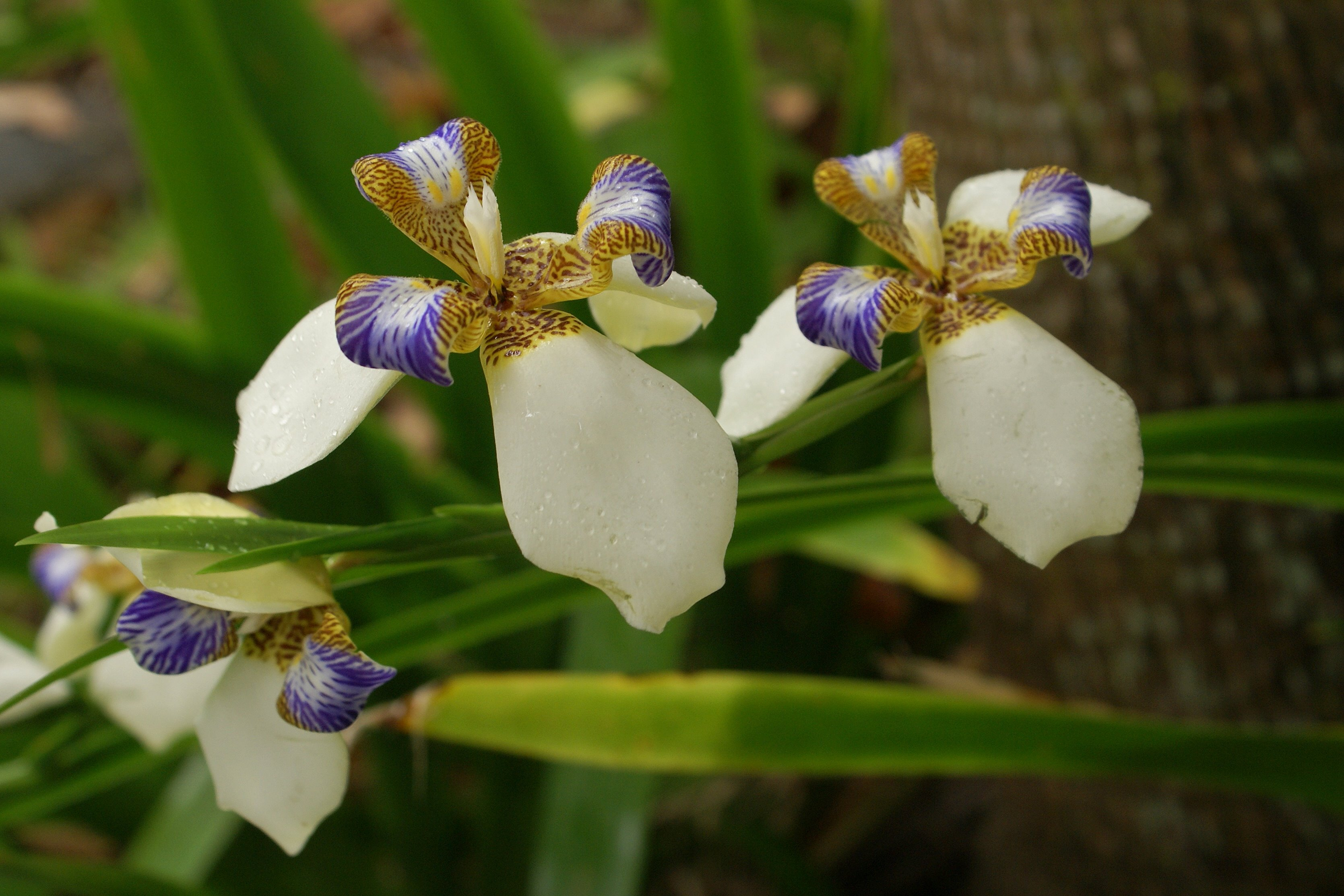 Neomarica gracilis flowering